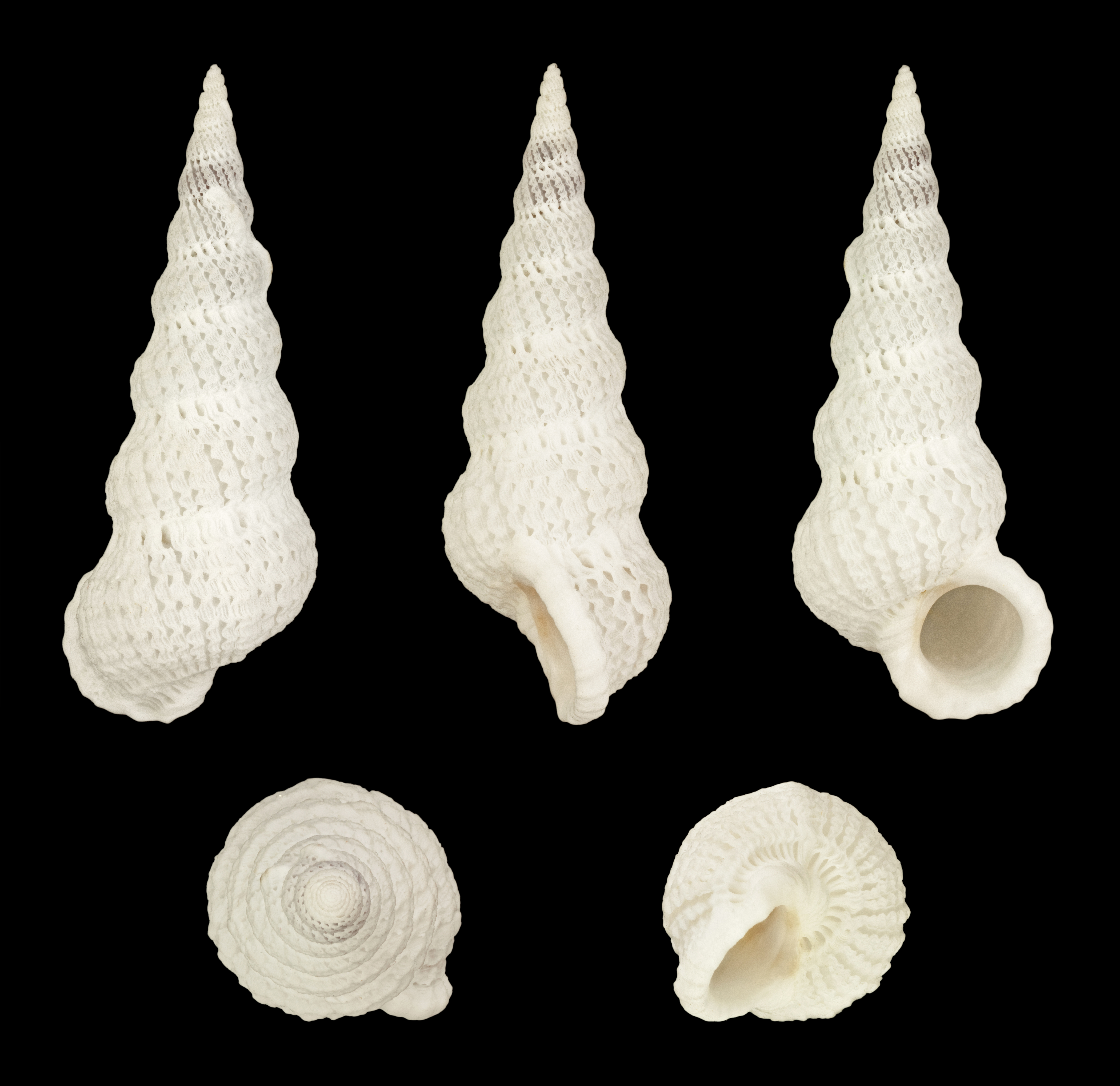 Cirsotrema varicosum (Lamarck, 1822), Varicose Wentletrap; length 4.8 cm; Originating from Punta Engano, Cebu, Philippines; Shell of own collection, therefore not geocoded.